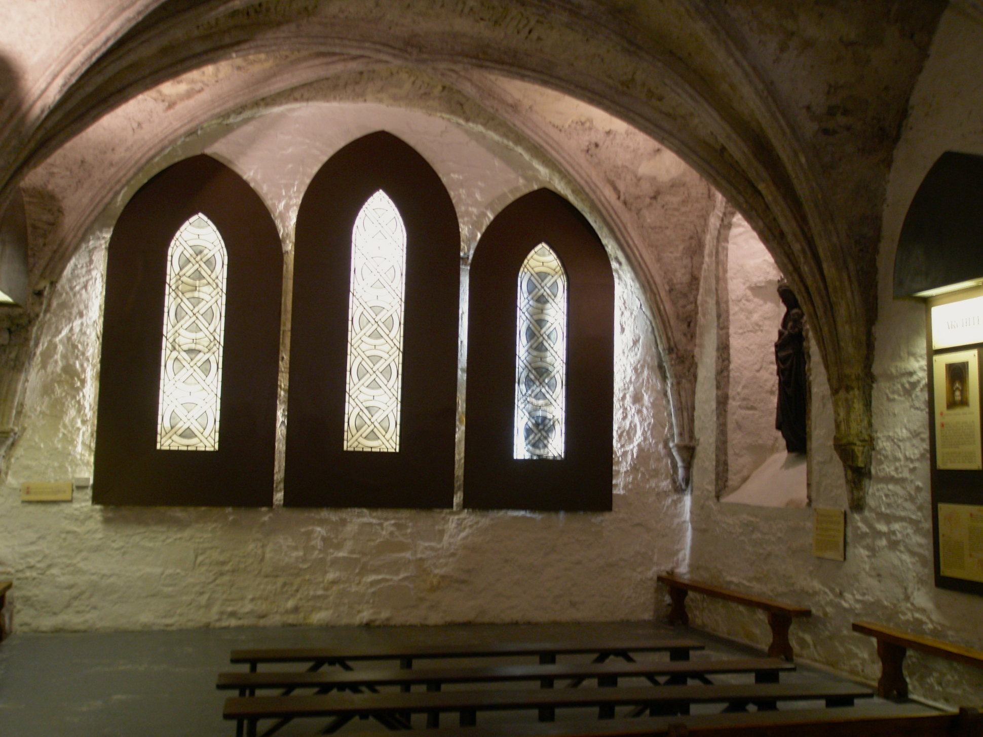 St. Mary's Abbey Dublin, ChapterHouse